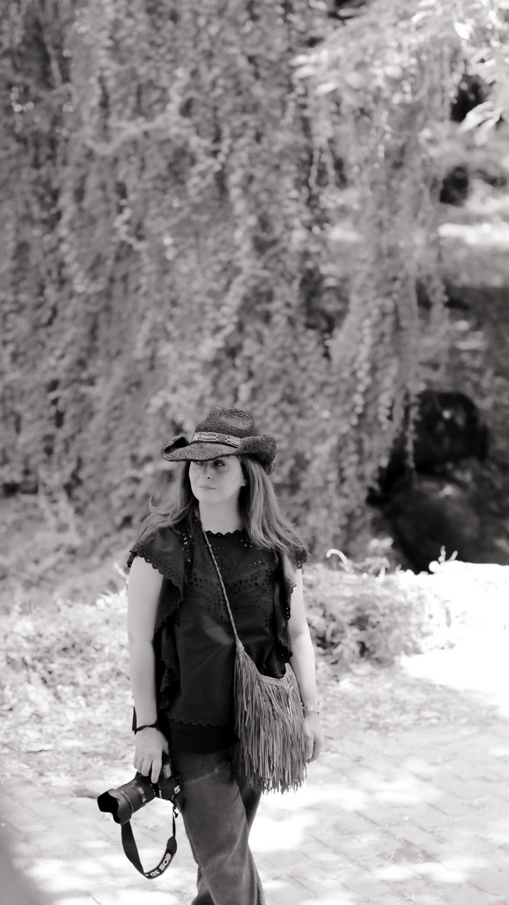 Portrait of Maryam Eisler